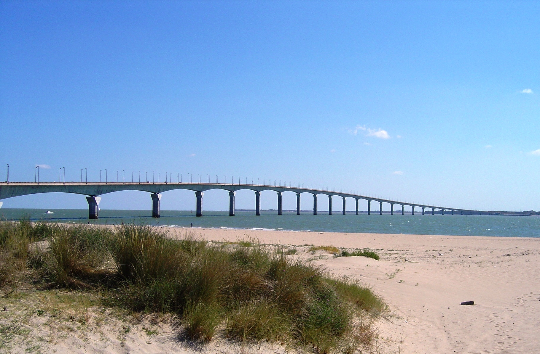 The bridge of Île de Ré between La Rochelle/La Pallice and sablanceaux/Rivedoux-Plage. Length: 3.9 km.